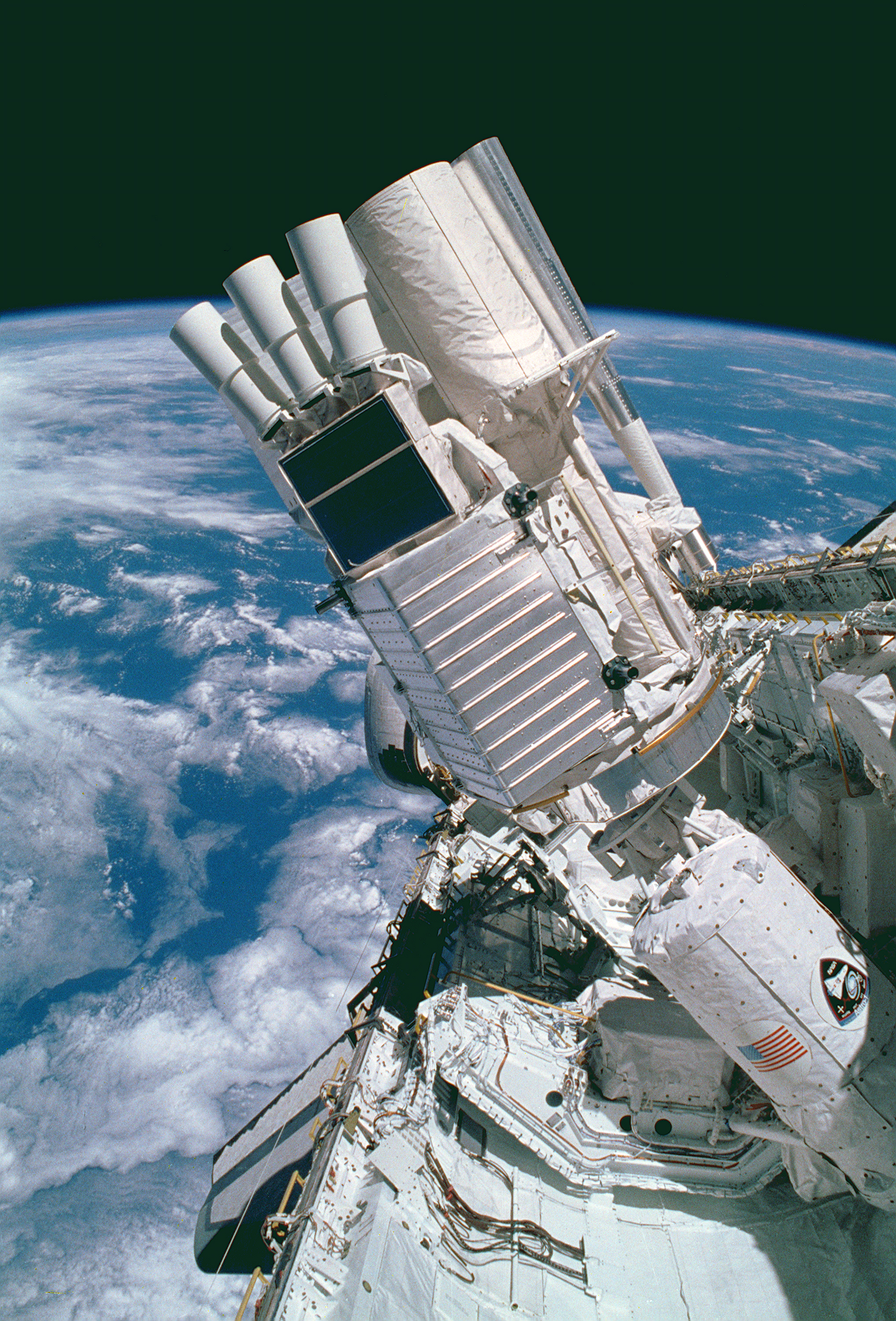 Onboard the Space Shuttle Orbiter Columbia (STS-35), the various components of the Astro-1 payload are seen backdropped against a blue and white Earth. Parts of the Hopkins Ultraviolet Telescope (HUT), the Ultraviolet Imaging Telescope (UIT), and the Wisconsin Ultraviolet Photo-Polarimetry Experiment (WUPPE) are visible on the Spacelab pallet. The Broad-Band X-Ray Telescope (BBXRT) is behind the pallet and is not visible in this scene. The smaller cylinder in the foreground is the igloo. The igloo was a pressurized container housing the Command Data Management System, that interfaced with the in-cabin controllers to control the Instrument Pointing System (IPS) and the telescopes. The Astro Observatory was designed to explore the universe by observing and measuring the ultraviolet radiation from celestial objects. Astronomical targets of observation selected for Astro missions included planets, stars, star clusters, galaxies, clusters of galaxies, quasars, remnants of exploded stars (supernovae), clouds of gas and dust (nebulae), and the interstellar medium. Managed by the Marshall Space Flight Center, the Astro-1 was launched aboard the Space Shuttle Orbiter Columbia (STS-35) on December 2, 1990.